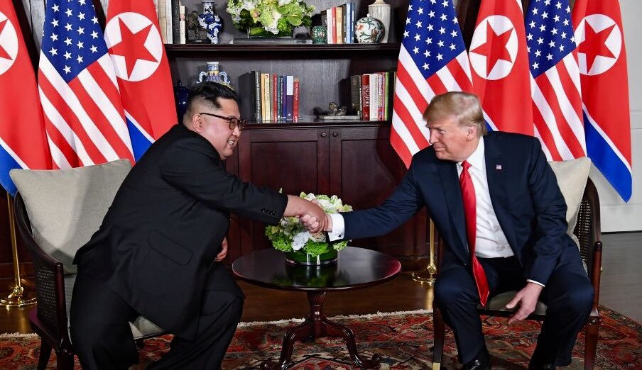 Trump and Kim shaking hands in the summit room during the DPRK–USA Singapore Summit.